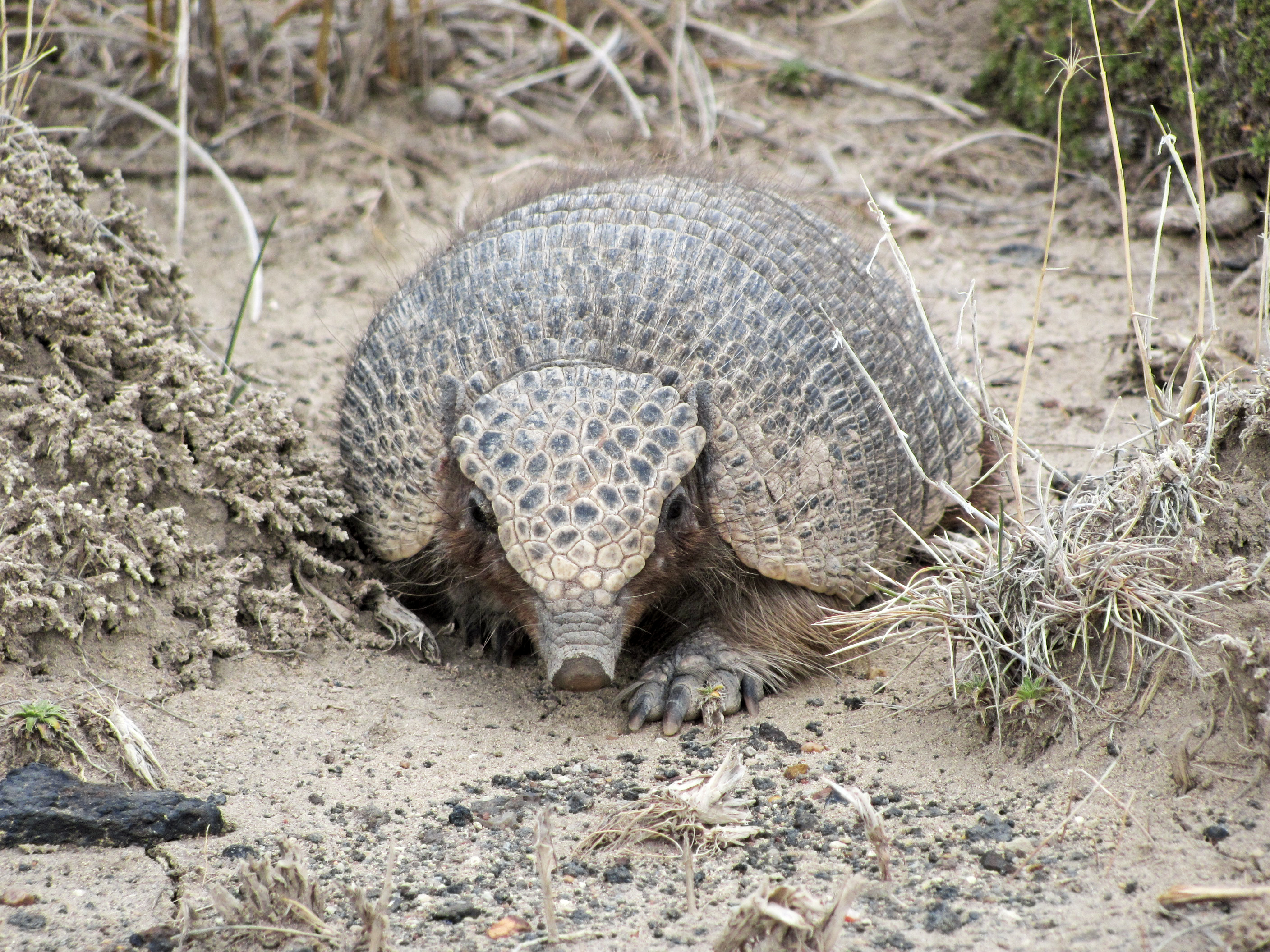 Piche (Zaedyus pichiy) in laguna Las Coloradas in Chubut Province (Argentina, Patagonia)